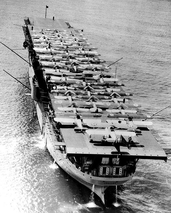 The U.S. Navy aircraft carrier USS Langley (CV-1) in Pearl Harbor, Oahu, Territory of Hawaii, with 34 planes on her flight deck, in May 1928. Note the booms rigged out from her sides.